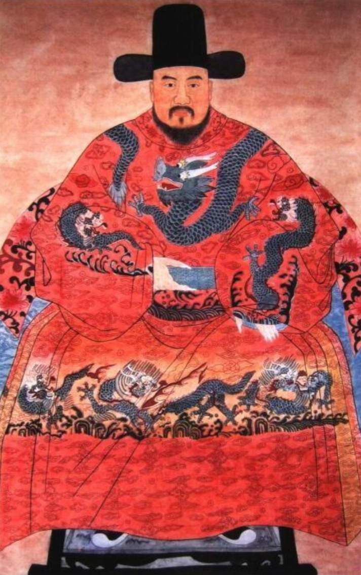 Gao Gong